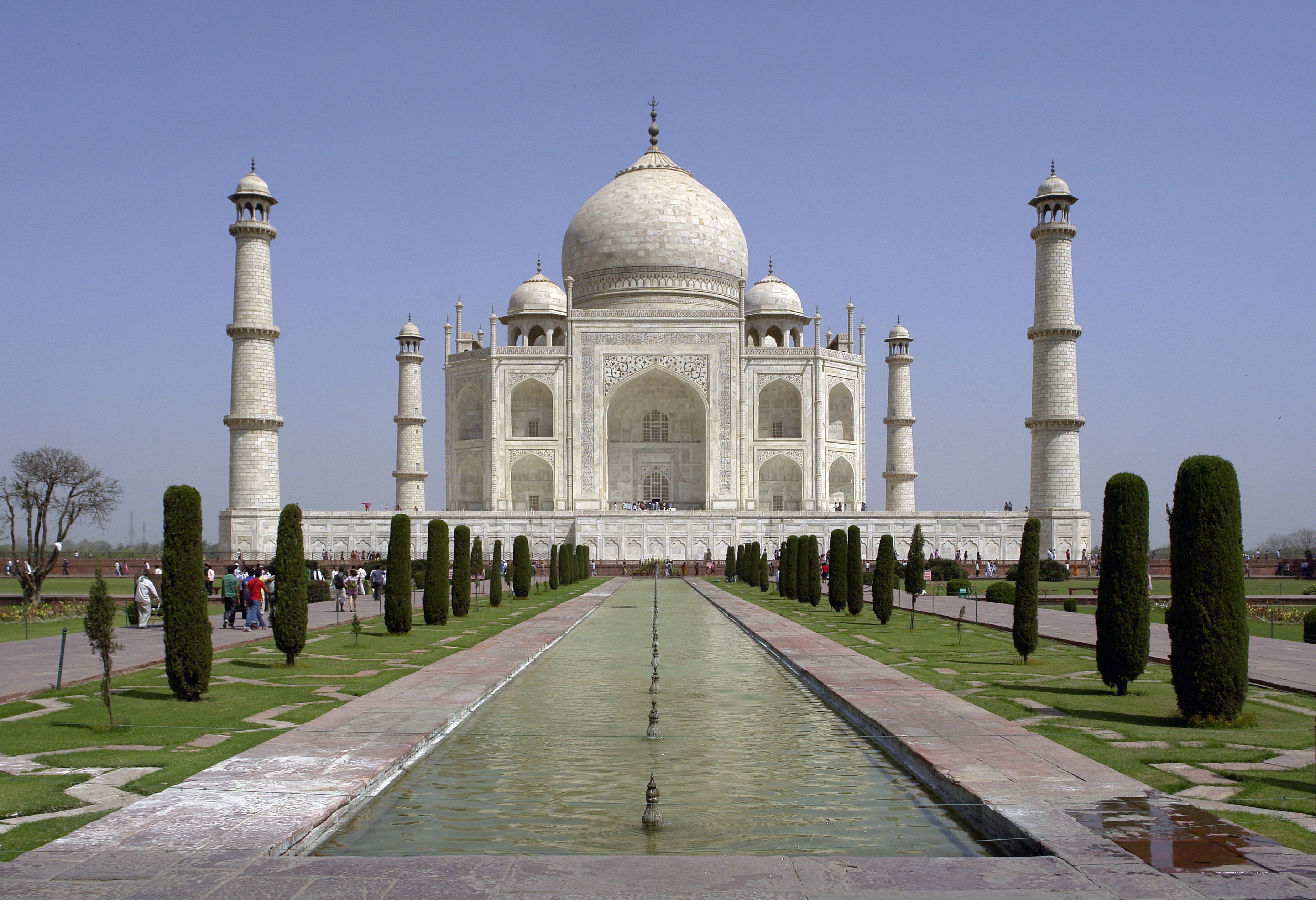 Taj Mahal, Agra, India.